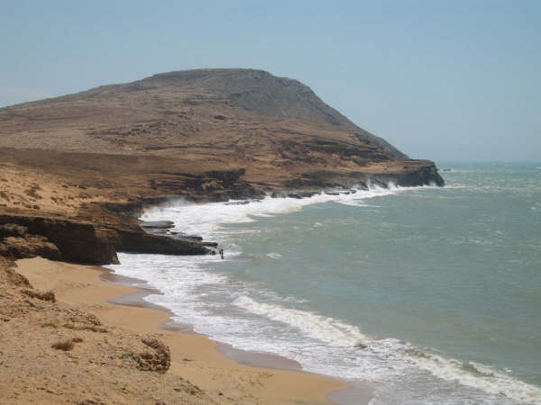 Cabo de la Vela (cape of sails), La Guajira Desert by the Caribbean Sea.